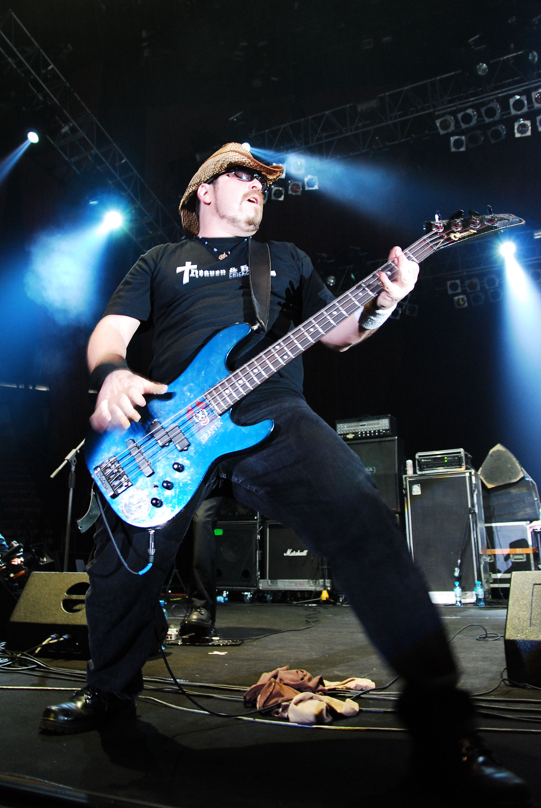 Jason Ward from Flotsam&Jetsam during Metalmania 2008 festival